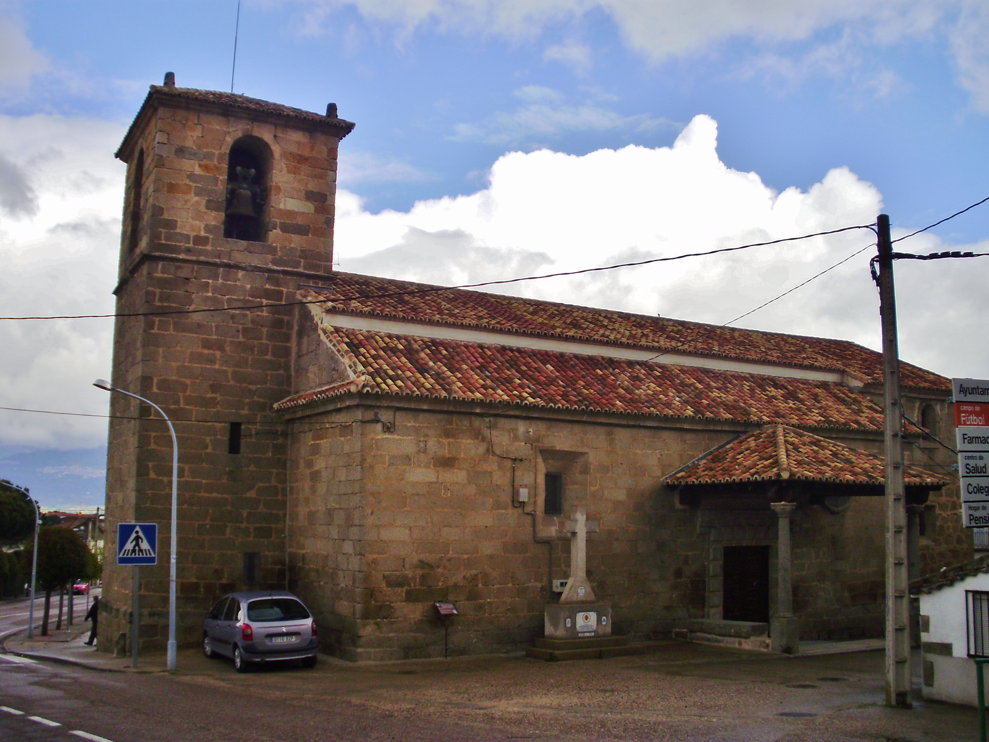 Santa Cruz Church, Toledo, Castile-la Mancha